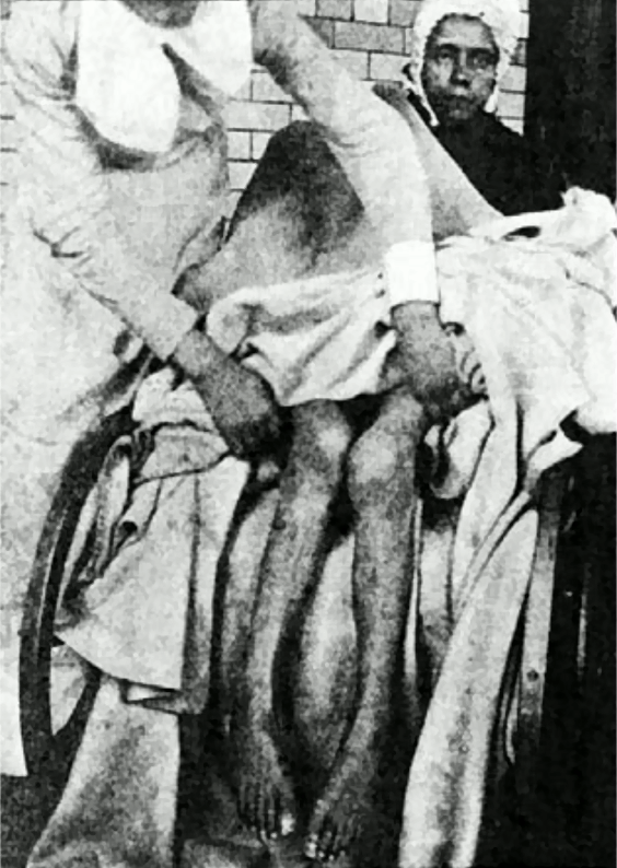 Victim of the 1900 English beer poisoning. Caption in original work stated "Complete paralysis of lower limbs with much atrophy, nails thickened, and slight pigmentation of skin."